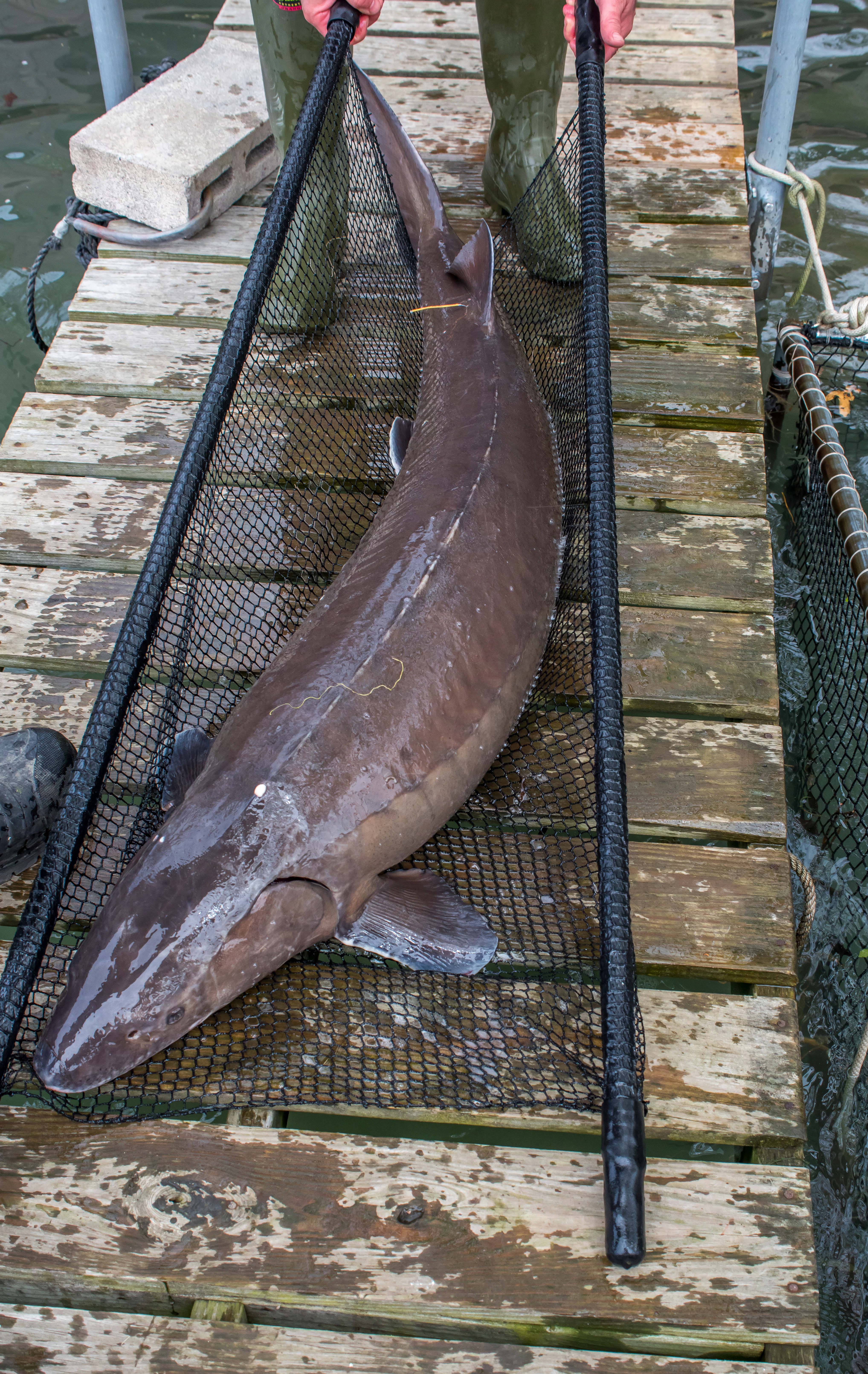 Native Fish of Indiana